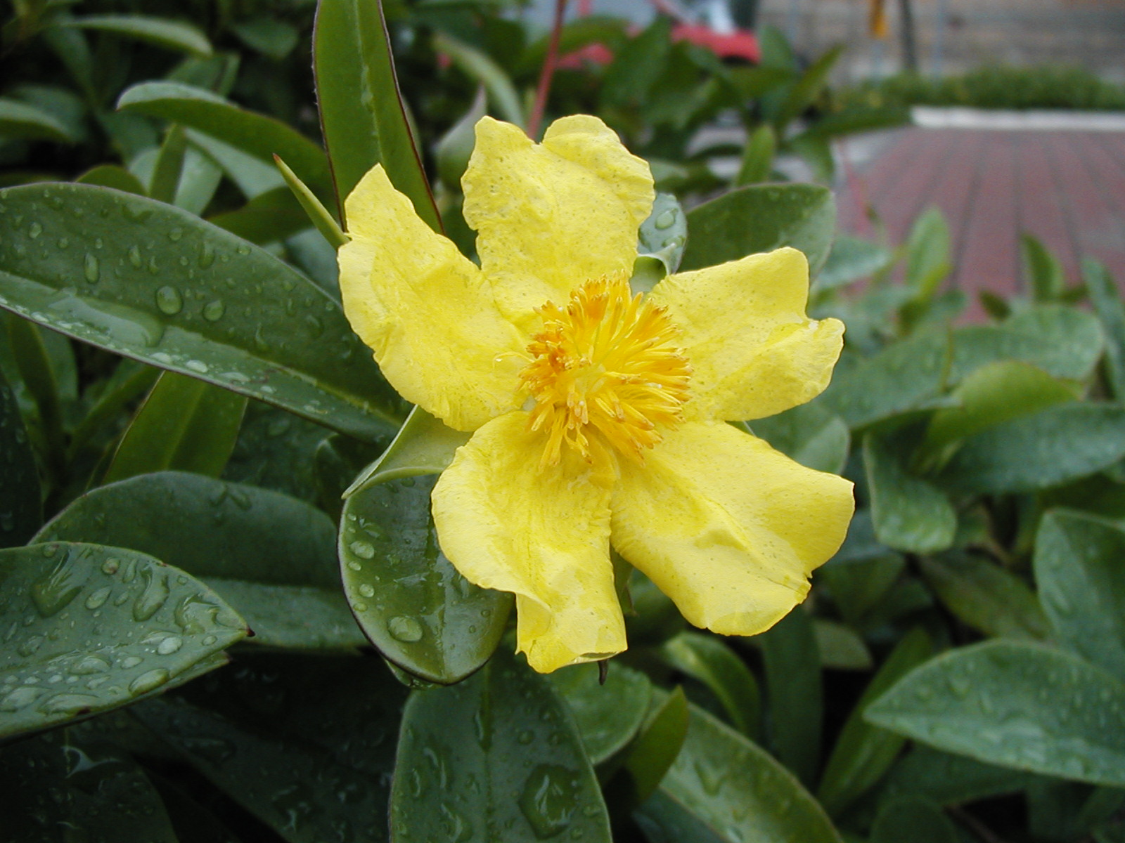 Hibbertia scandens -after rain. In cultivation in Dulwich Hill NSW